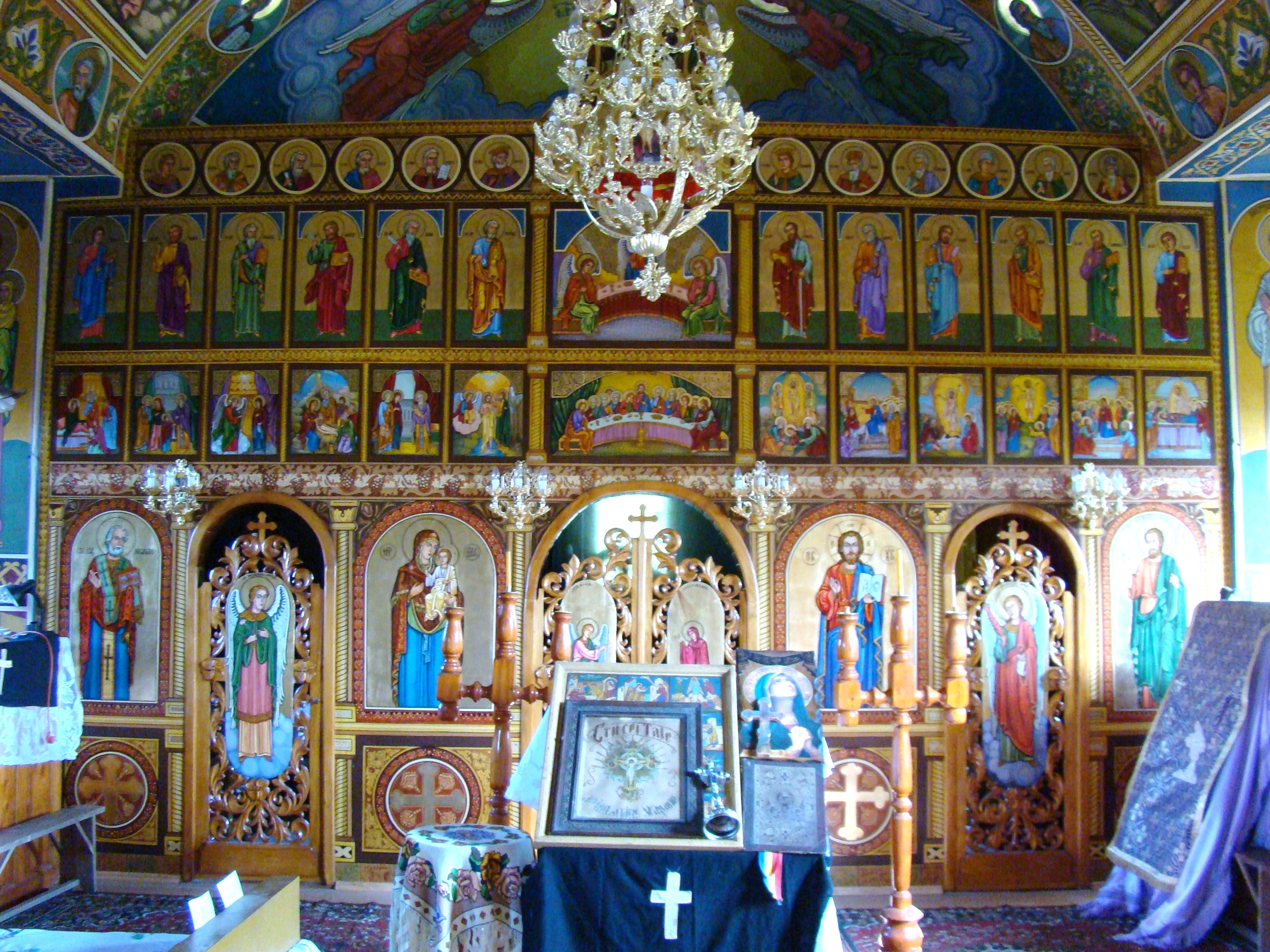 Wooden church in Iosășel, Arad county, Romania